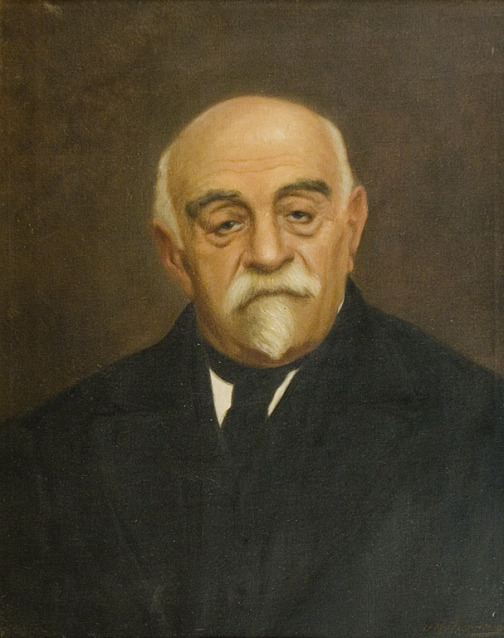 Greek painter Olga Prosalenti (1870-1930):Portrait of Constantinos Sathas